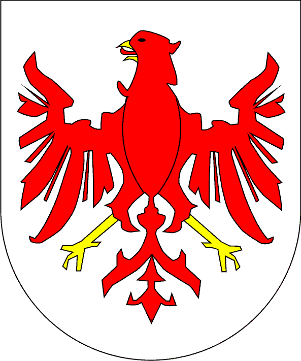 coats of arms of the lordship of Montaigu